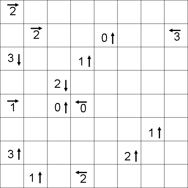 Yajilin Puzzle unsolved